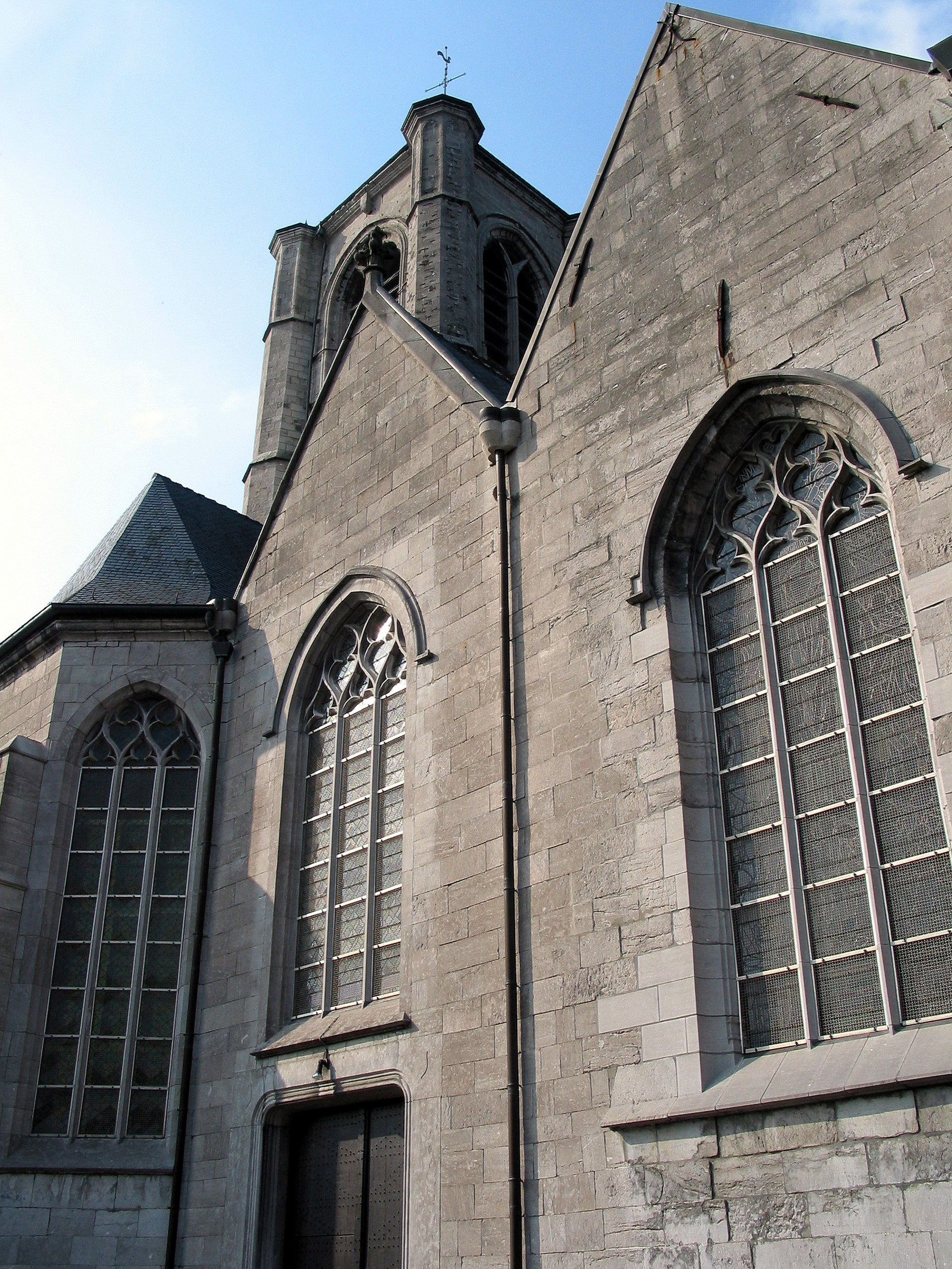 Braine-le-Comte (Belgium), the Saint Géry church.